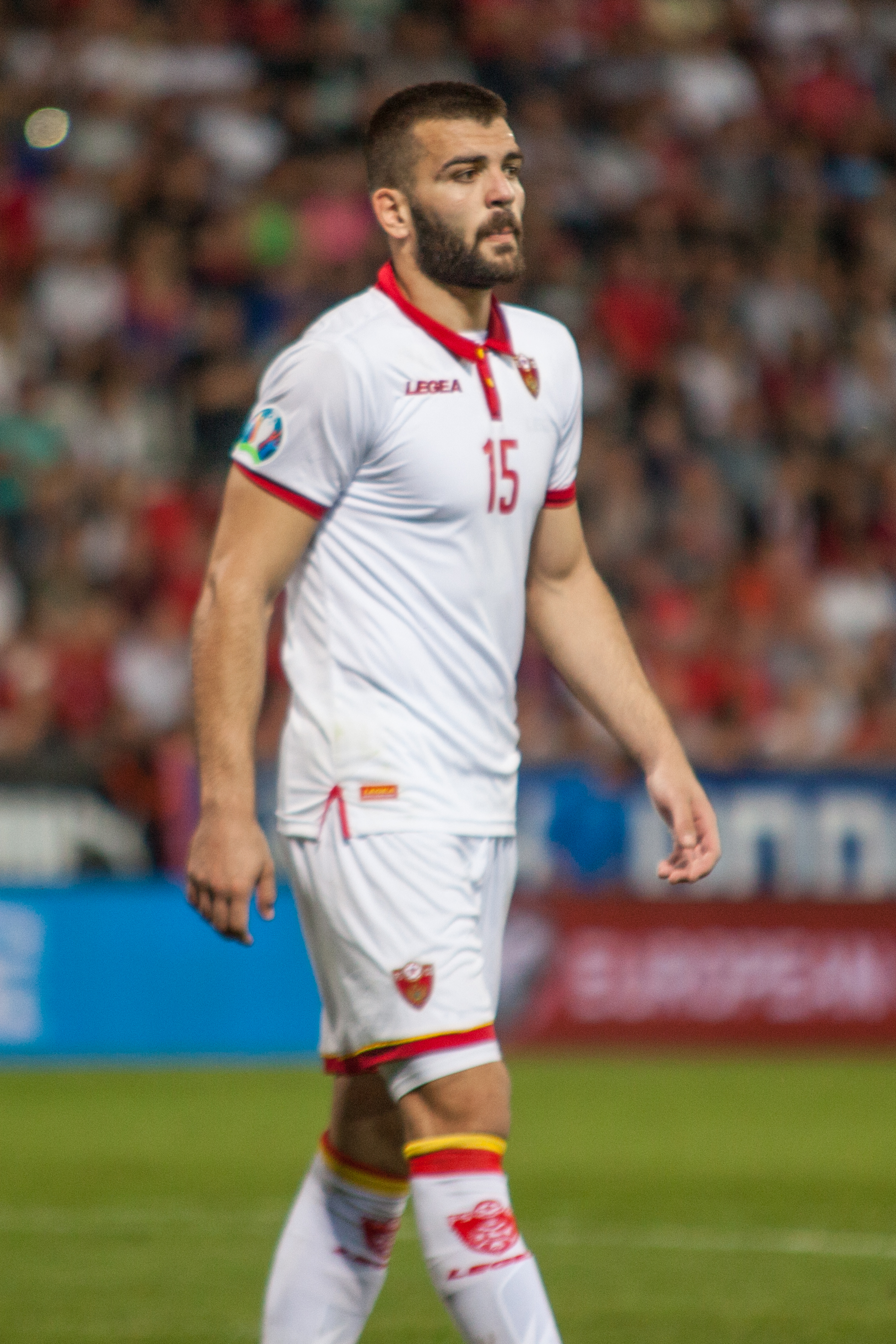 Igor Vujačić at EURO 2020 Qualifying Round Czech Republic-Montenegro (10/6/2019, Ander Stadium, Olomouc) Personality rights warningAlthough this work is freely licensed or in the public domain, the person(s) shown may have rights that legally restrict certain re-uses unless those depicted consent to such uses. In these cases, a model release or other evidence of consent could protect you from infringement claims.